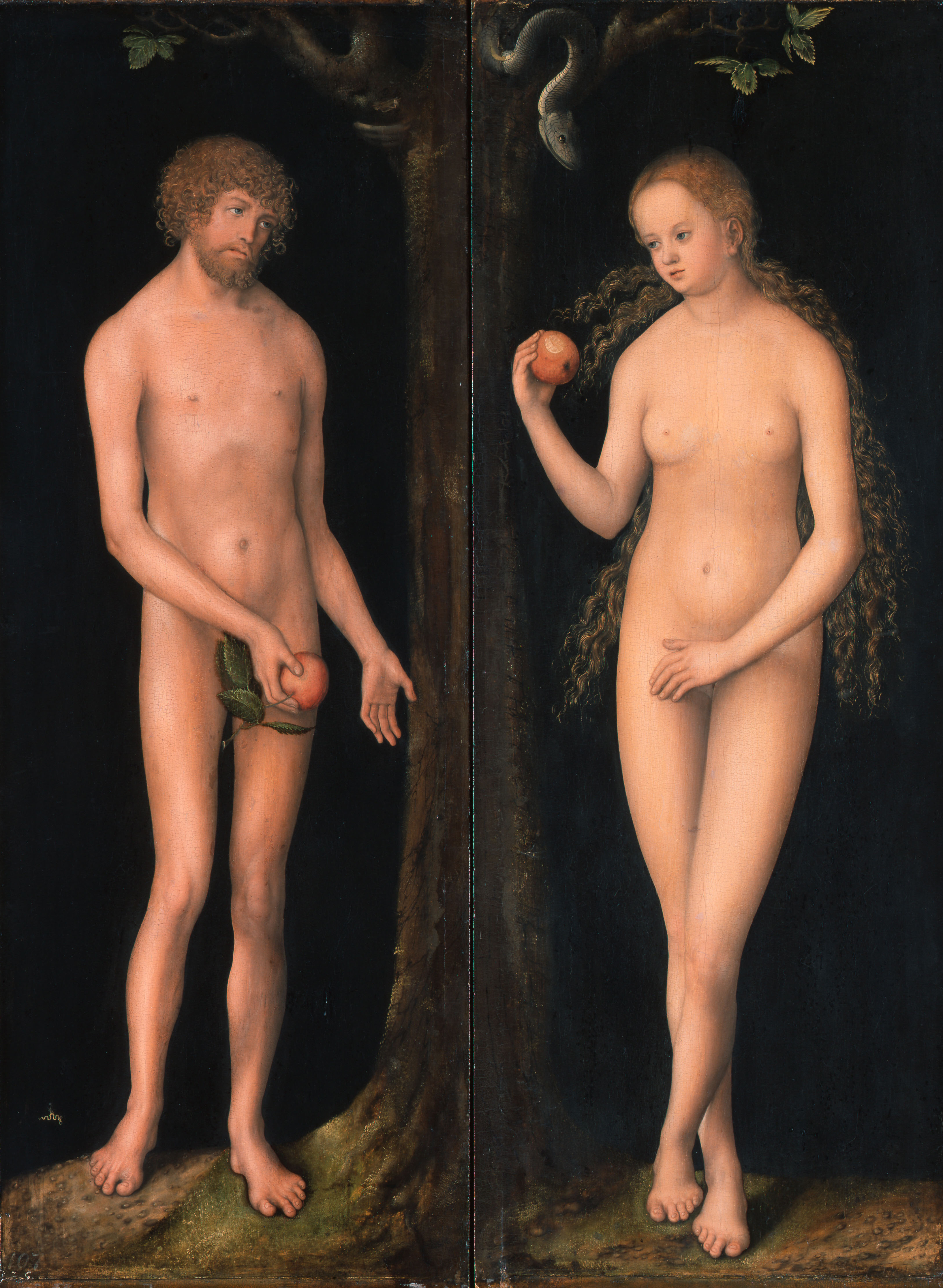 two paintings